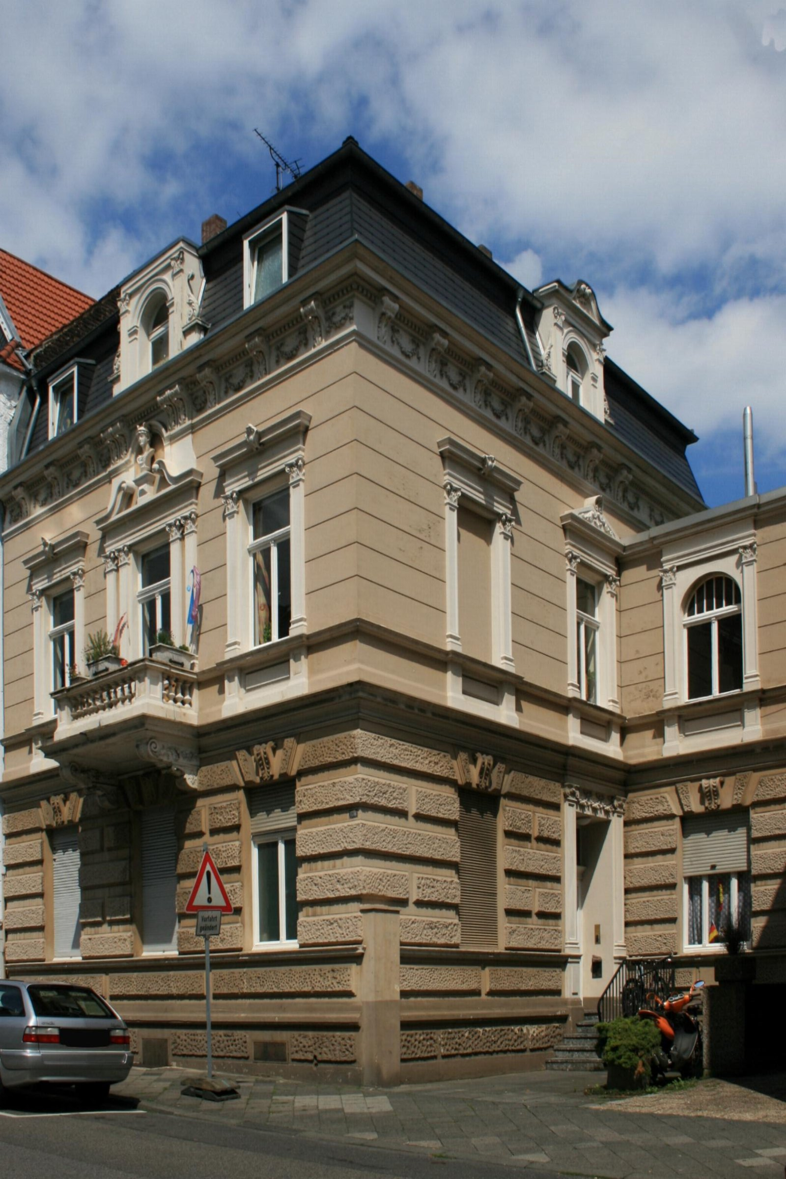 Cultural heritage monument No. L 007 in Mönchengladbach